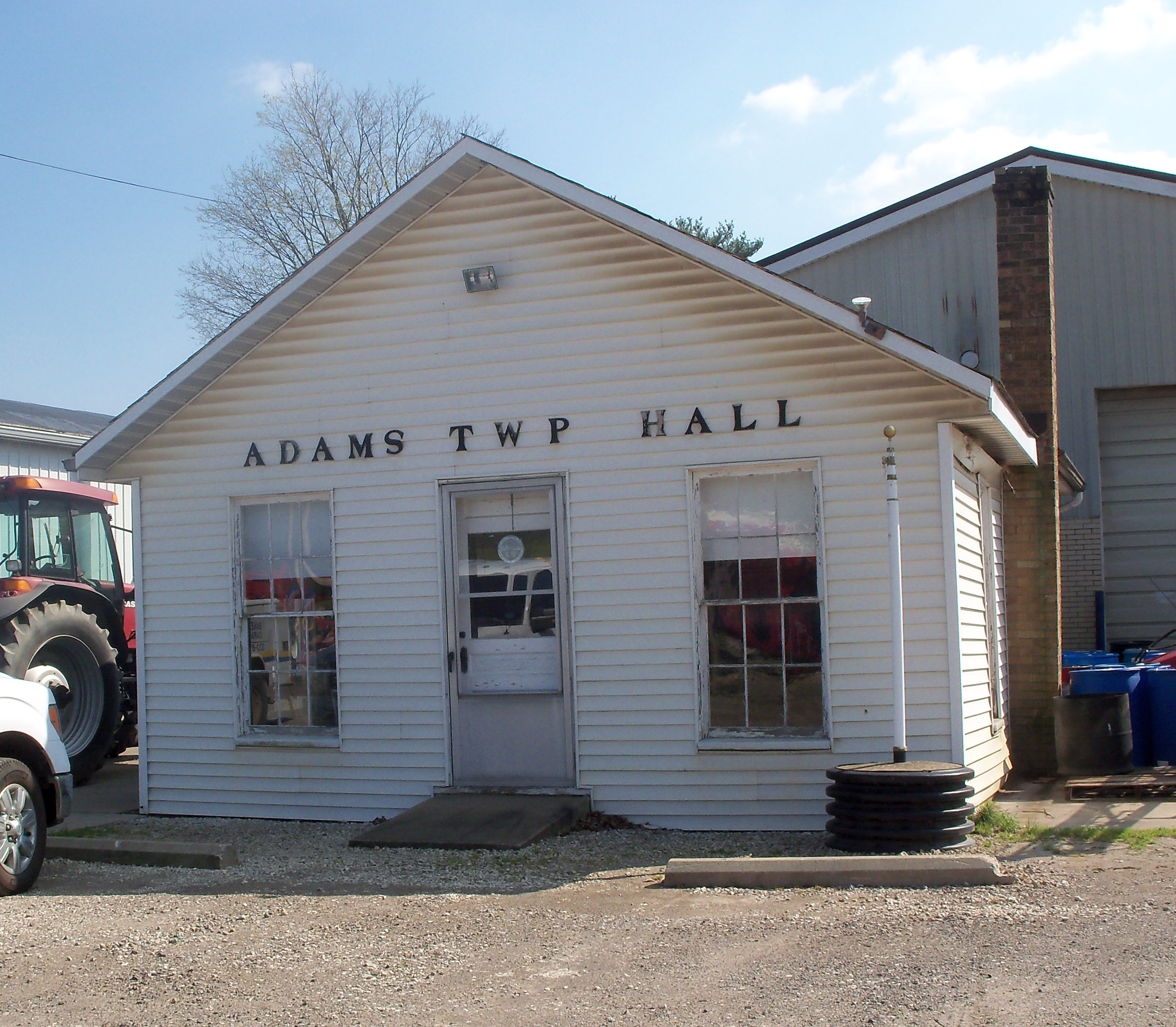 Seat of government for Adams Township, Coshocton County, Ohio in Bakersville, Ohio